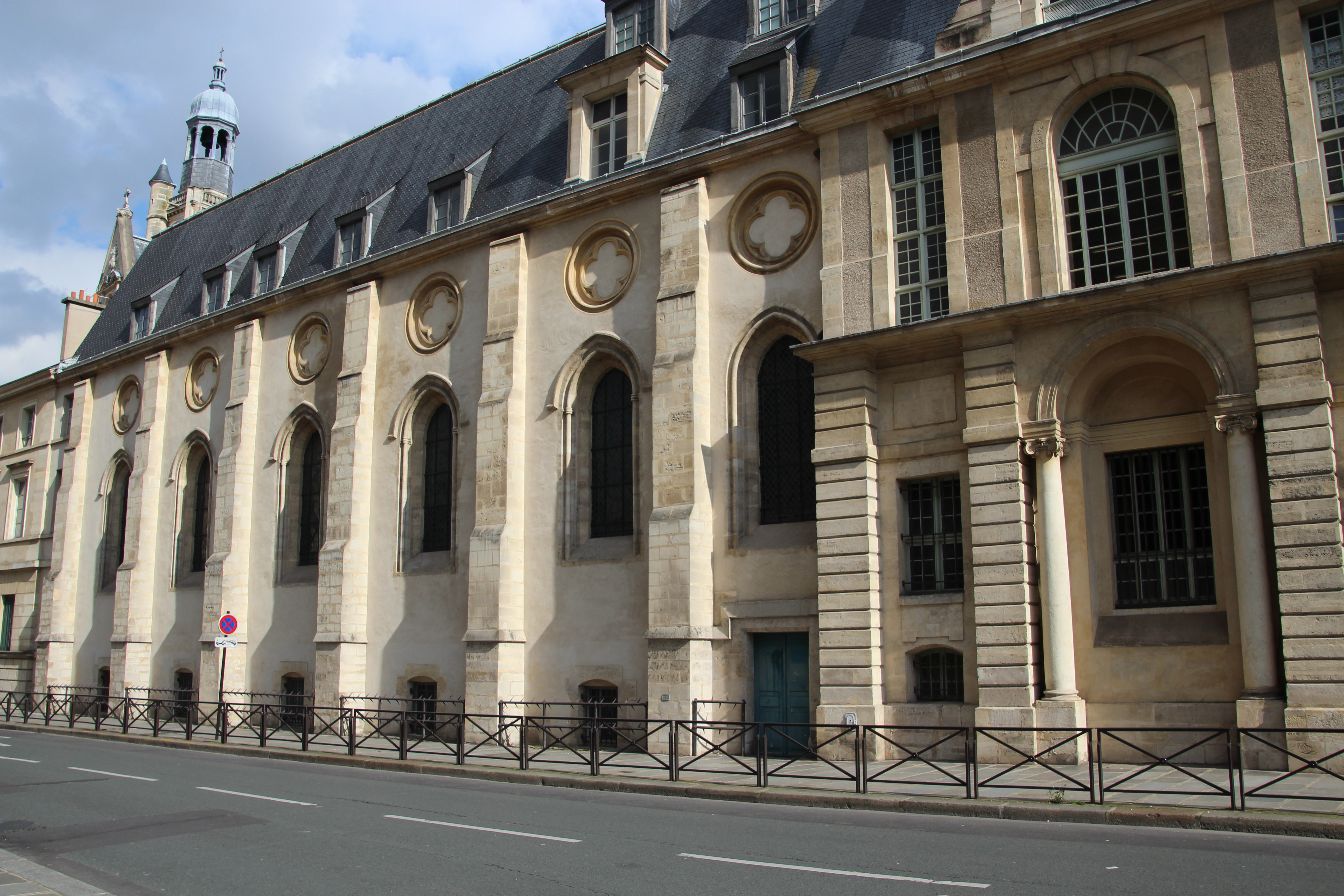 Lycée Henri IV as seen from Clotilde street in Paris, France in 2014.